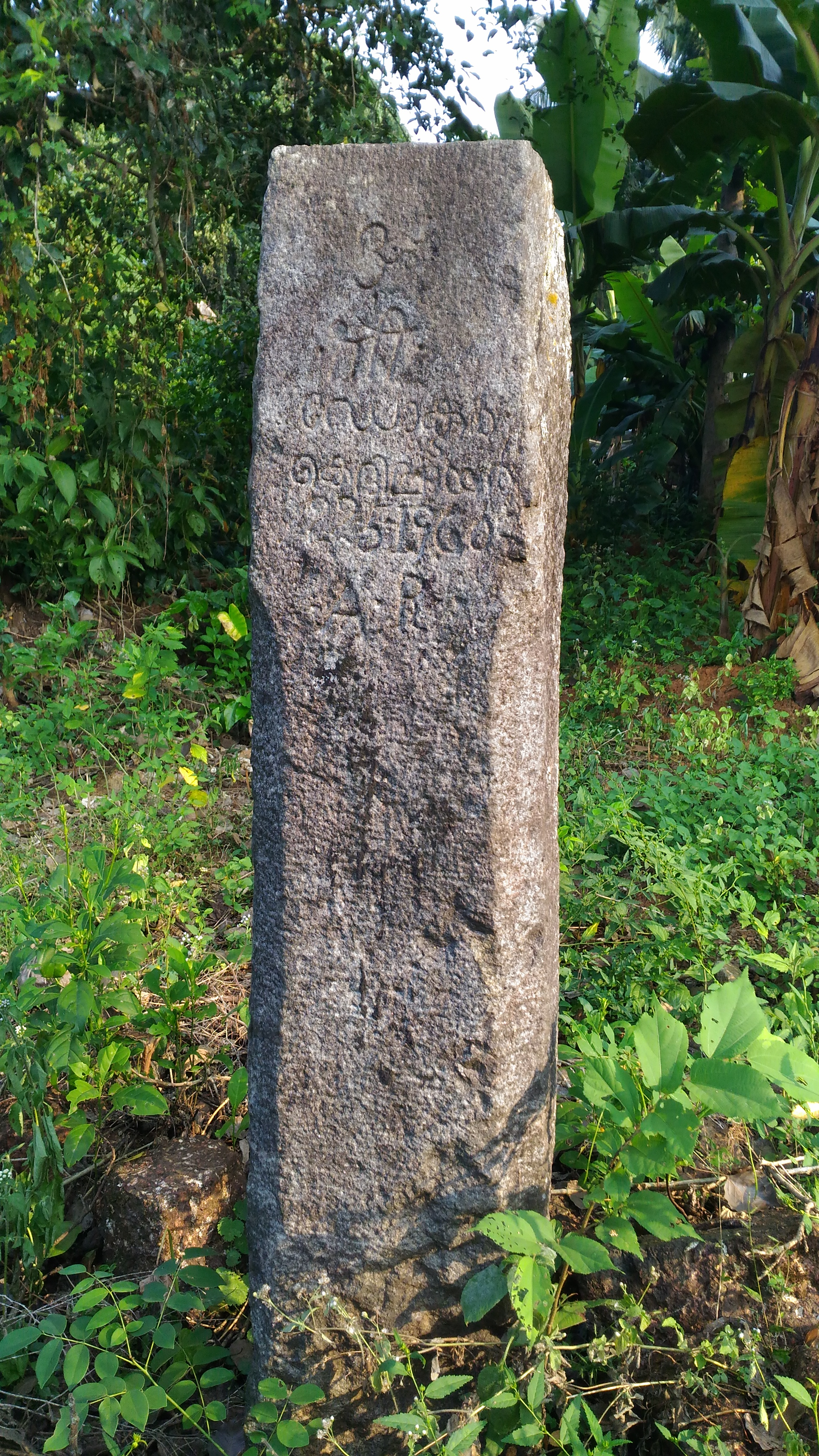 stone pillar to help passengers with weighed objects in head